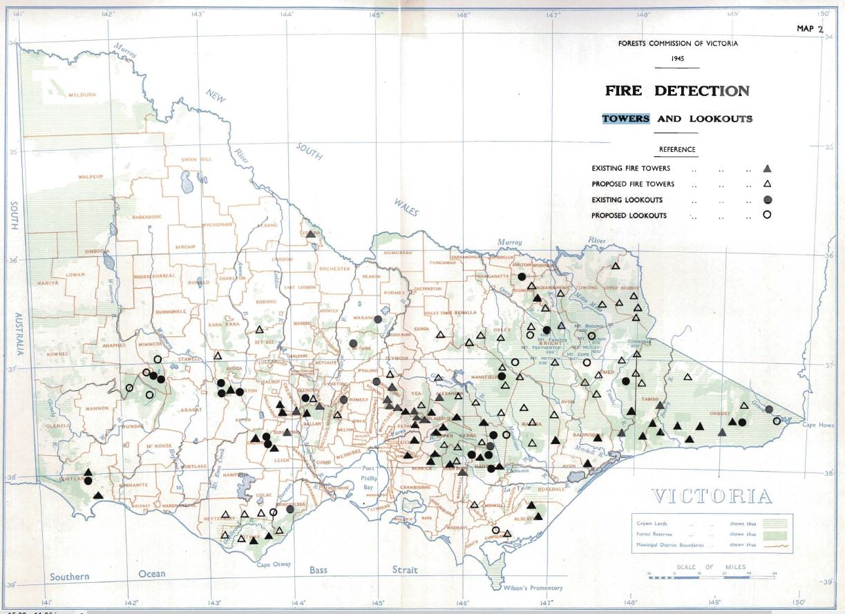 Forests Commission Victoria - fire lookouts and fire towers 1945